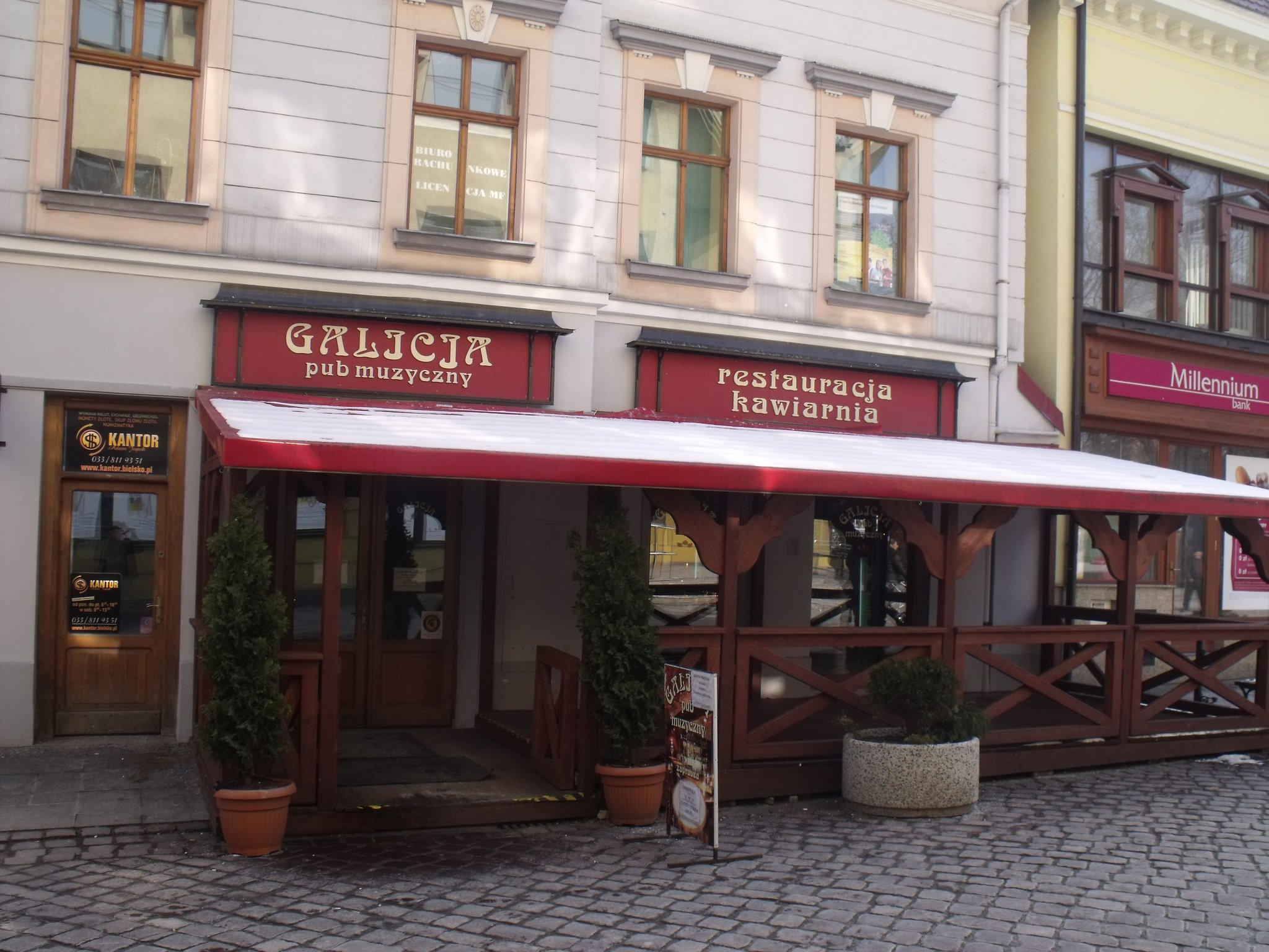 Pub Galicia, Bielsko-Biała